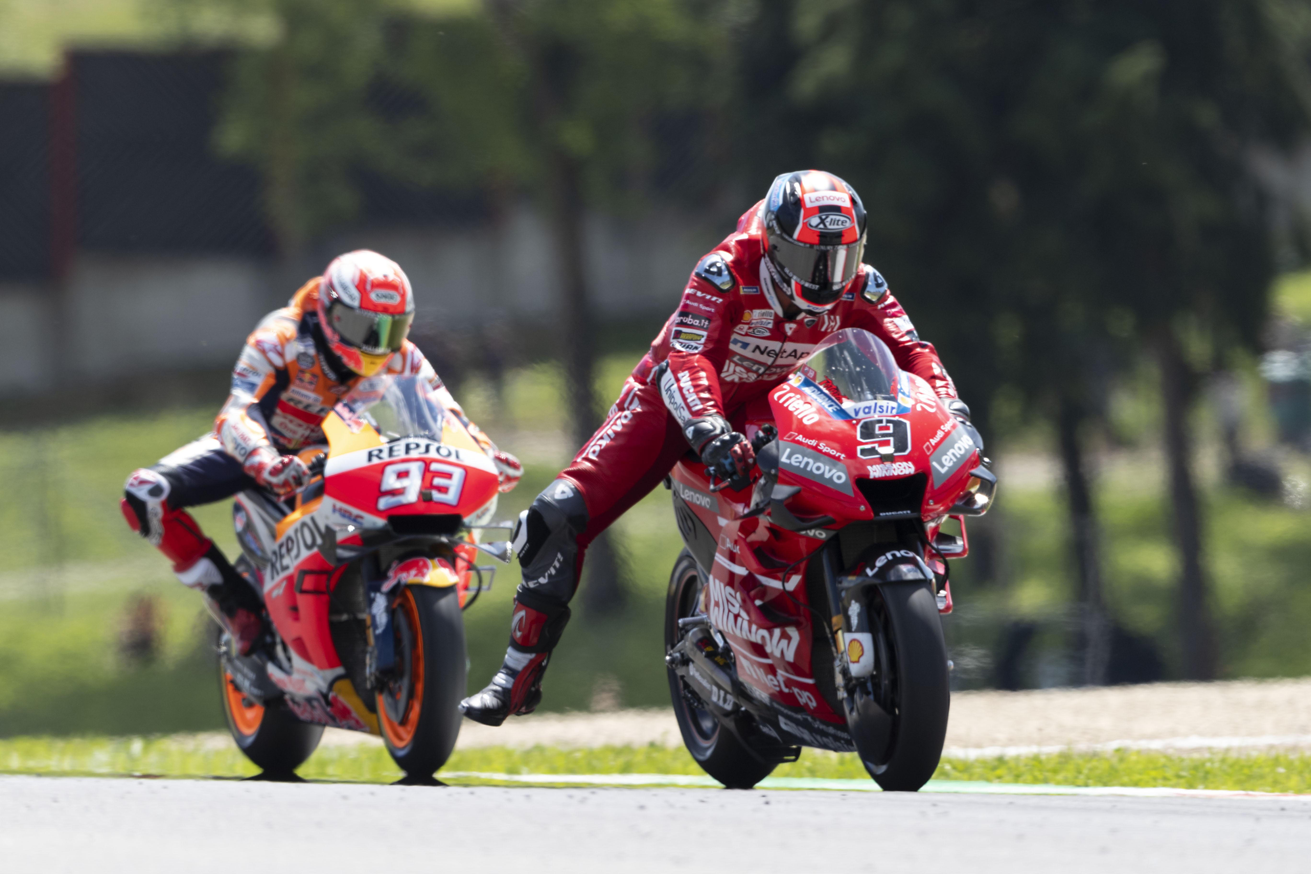 Danilo Petrucci, riding his Mission Winnow Ducati, being followed by the Repsol Honda of Marc Márquez at the 2019 Italian Grand Prix.